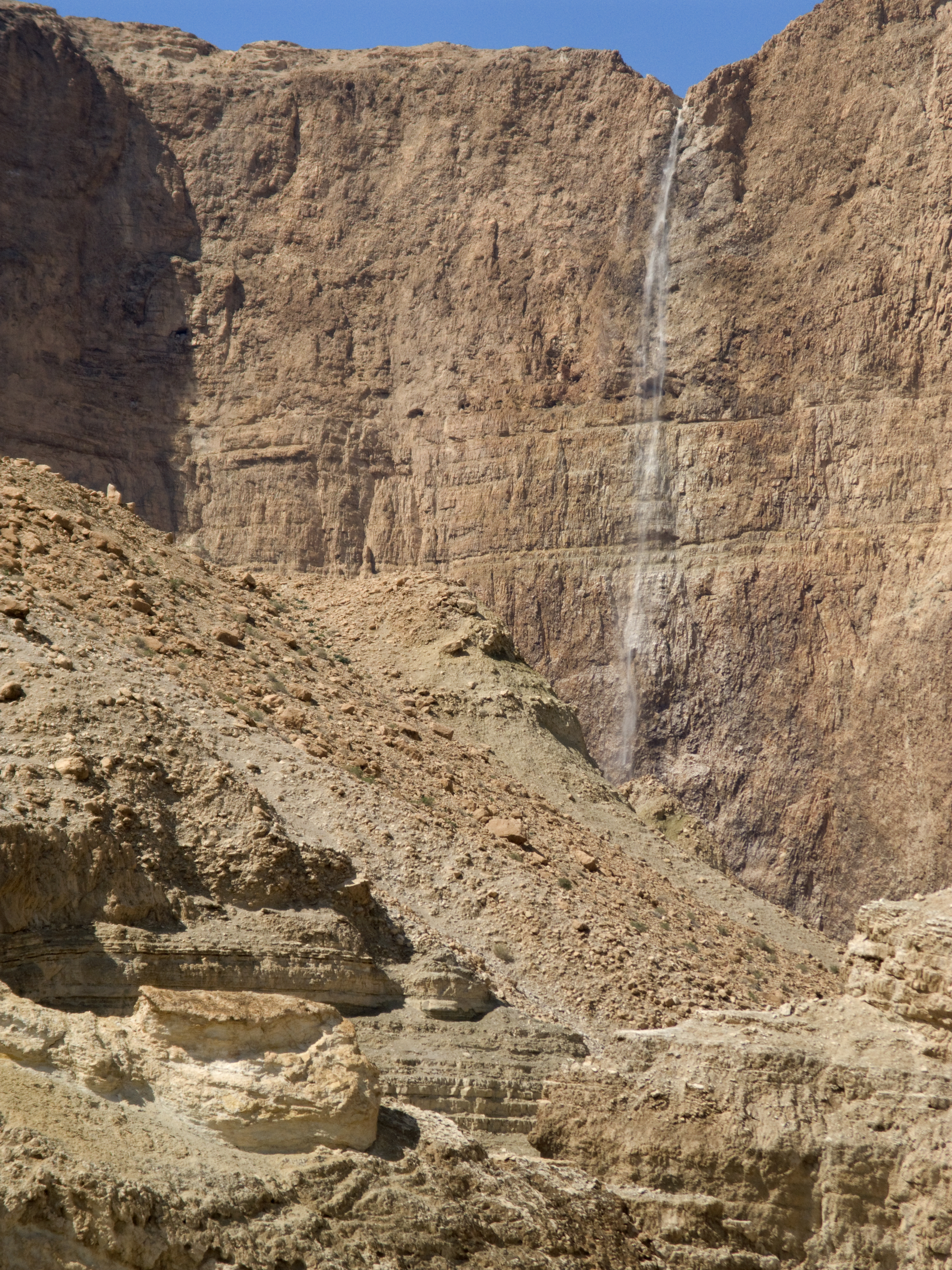 Flood at Kedem Waterfall ("Nahal Kedem"), Judean Desert, Israel